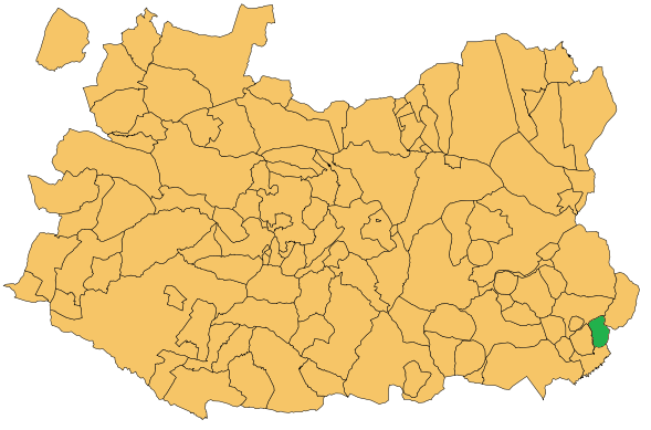 Albadalejo